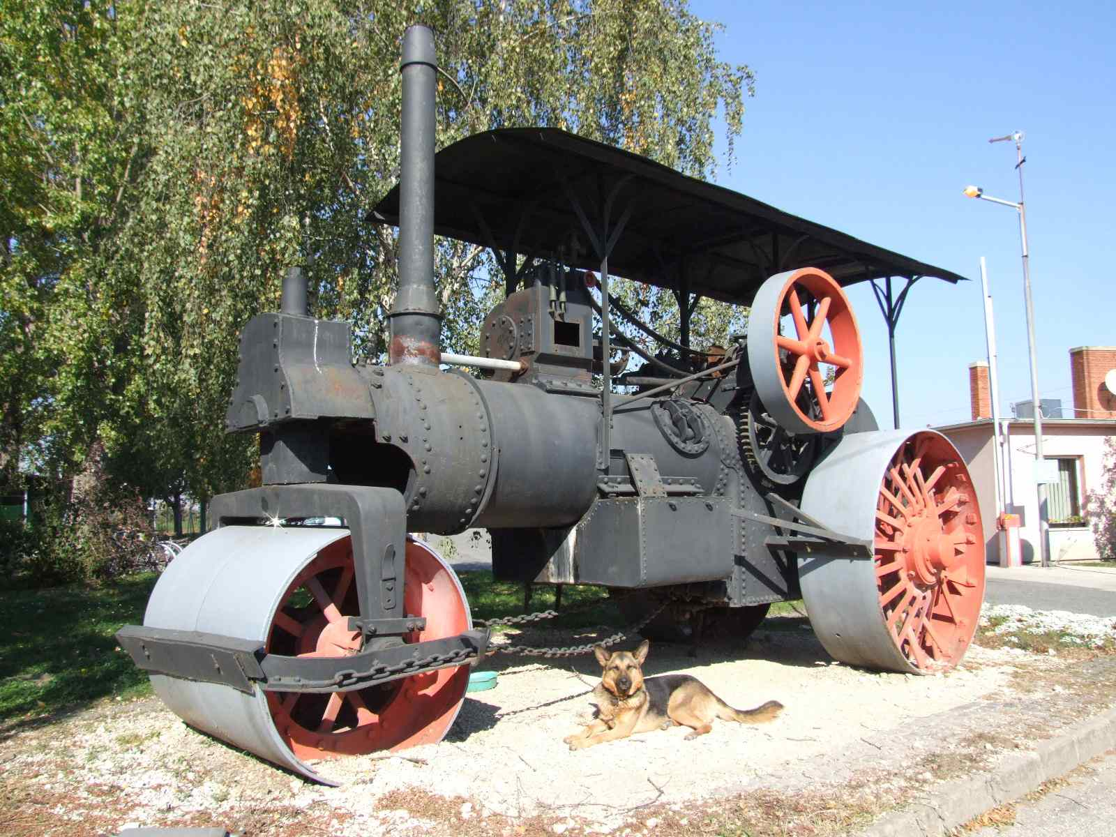 Steam roller exhibited in Kisbéri, Hungary (at company Magyar Kozut)